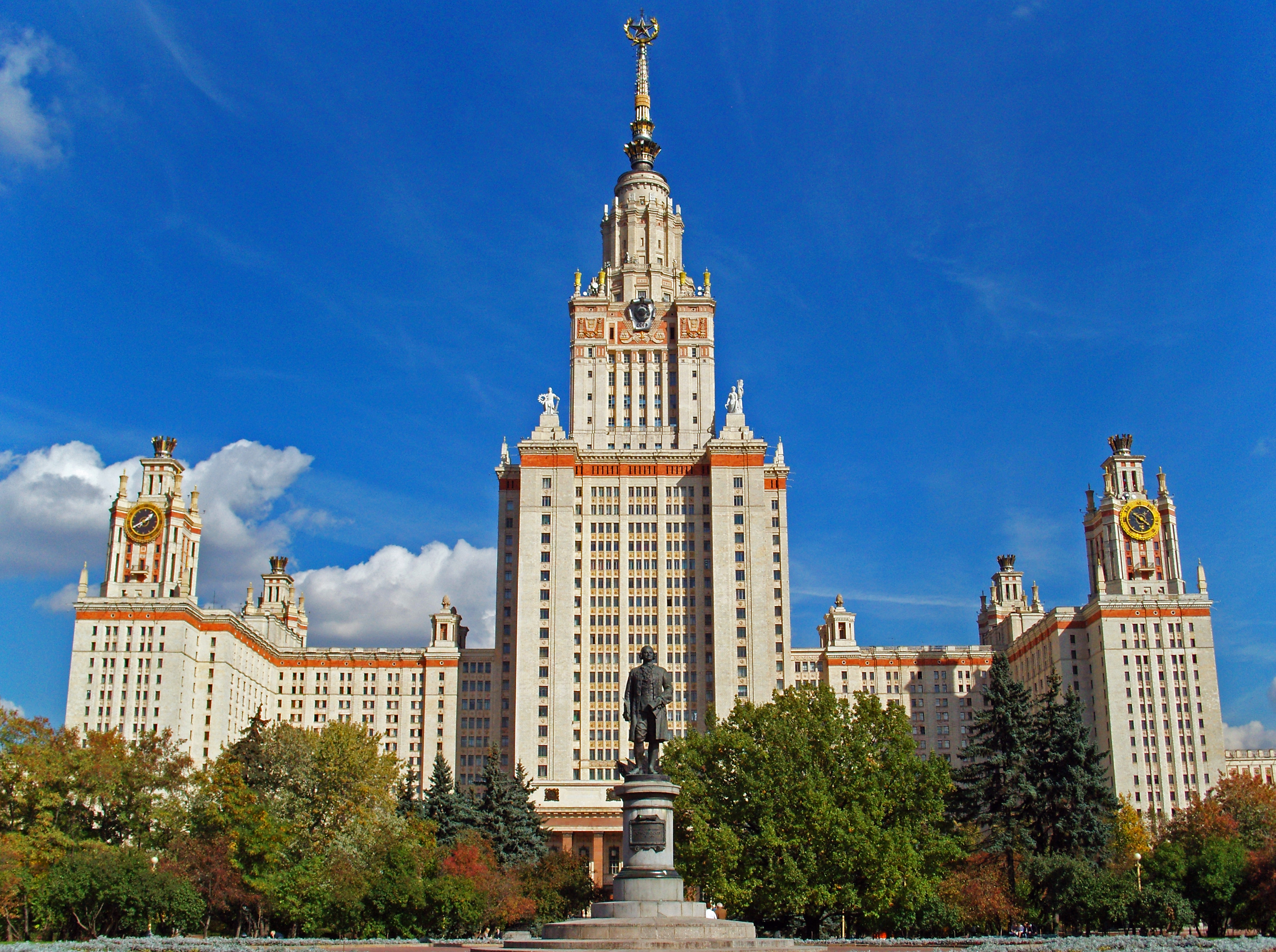 View of MGU (Lomonosov Moscow State University)